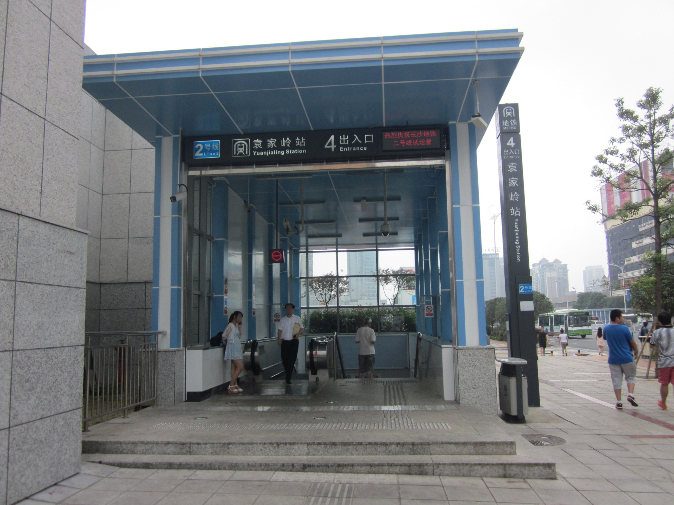 Yuanjialing (Line 2, Changsha Metro).